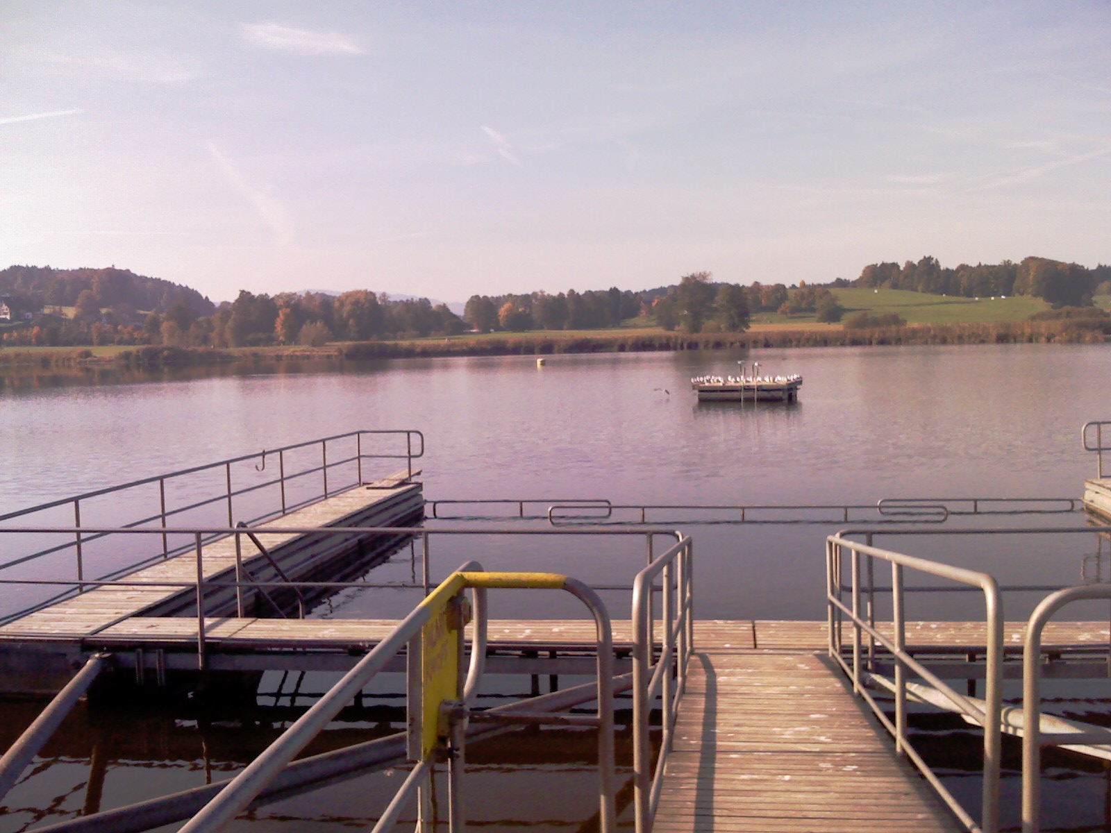 Lützelsee seen from the lidoEsperanto: Lageto Lützelsee vidita de la publika banejo